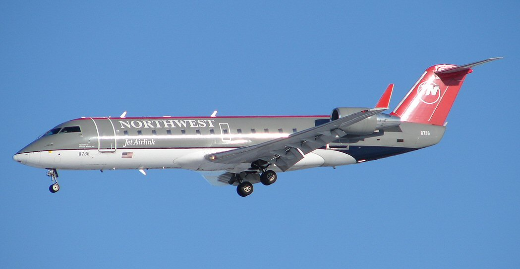 Pinnacle Airlines CRJ-200